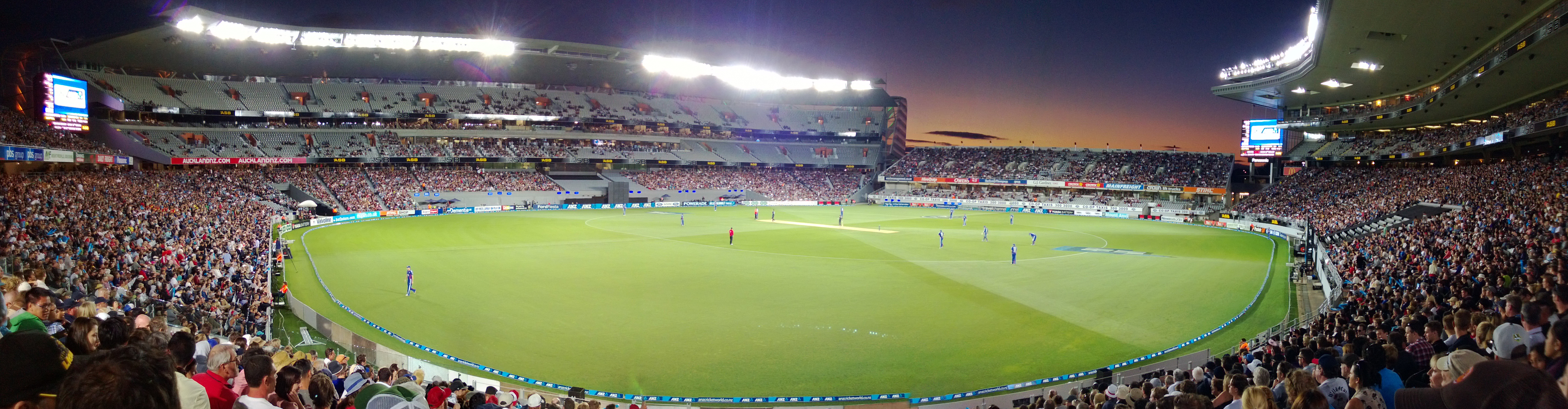 Beautiful panorama of Eden Park stadium in Auckland, New Zealand, photographed by Kiwi Flickr. Original description: "Eden Park at Dusk – Taken on the 9th Feb 2013 during the 20/20 cricket match between England and New Zealand".